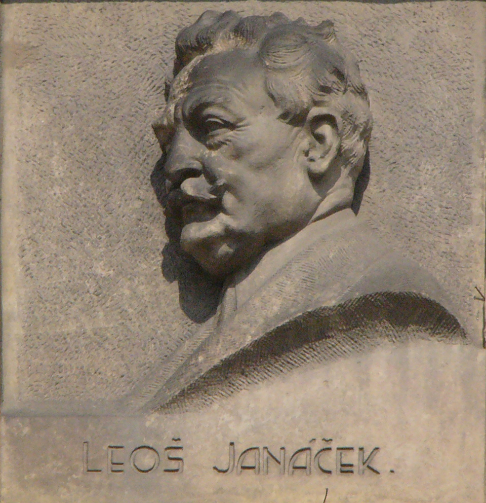 Relief of Leoš Janáček in Olomouc (Czech Republic).